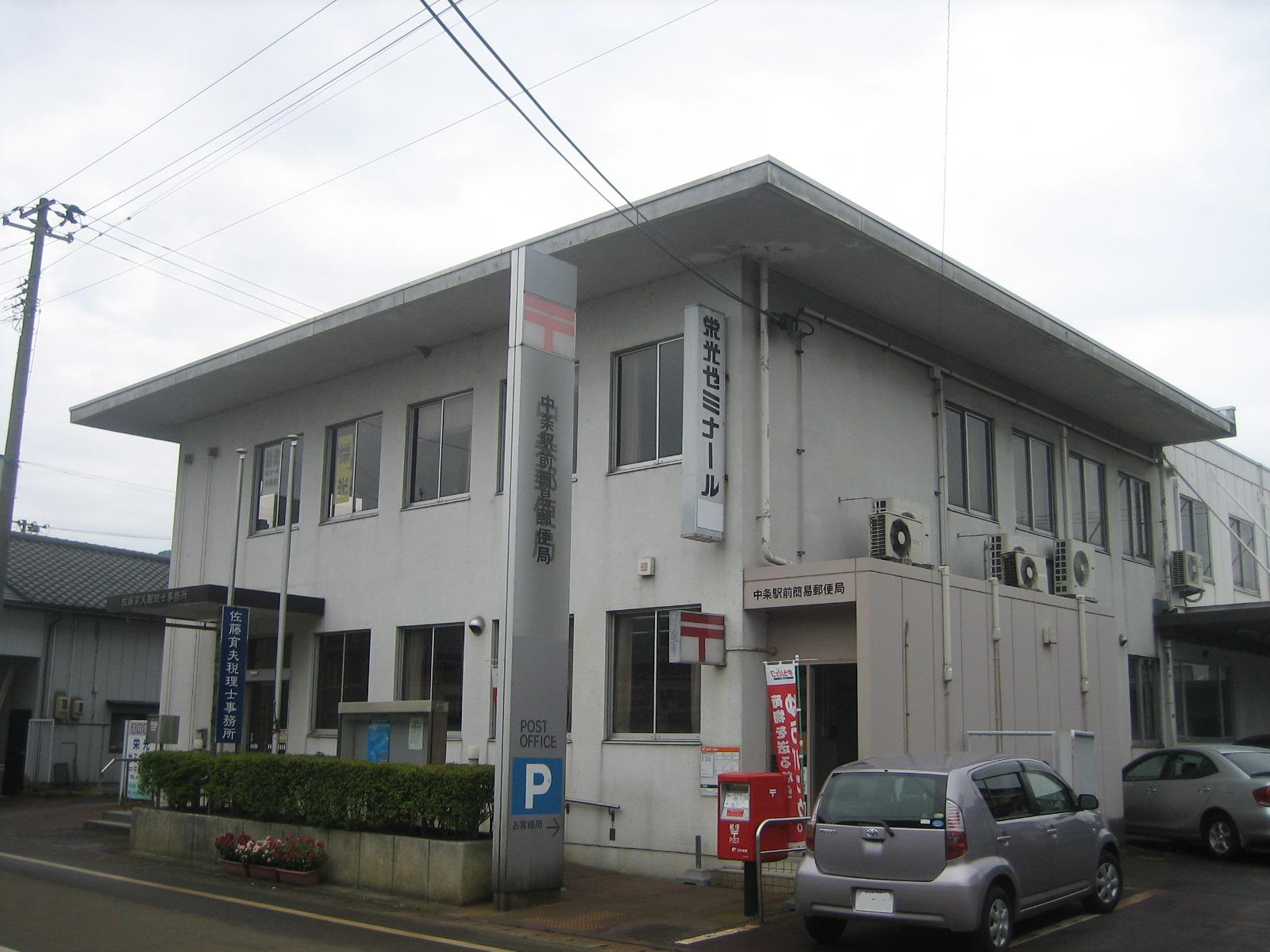 past Nakajo post office in Niigata, Japan